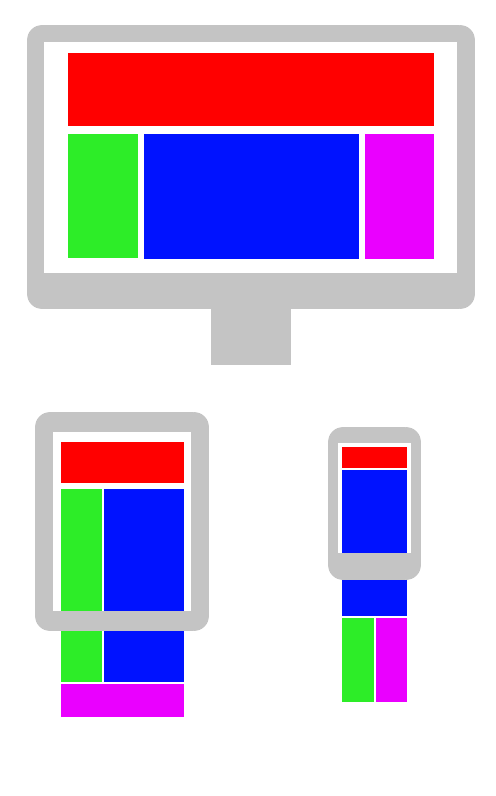 One of the possible solutions how to divide your content with responsive web design for any type of devices